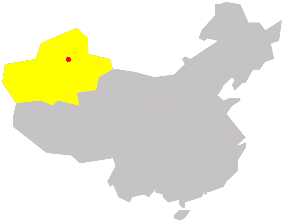 Description: position of Urumqi in China Source: own work Date: December 2005 Author: --Immanuel Giel 13:39, 16 December 2005 (UTC) Other versions: none Urumqi Urumqi Urumqi